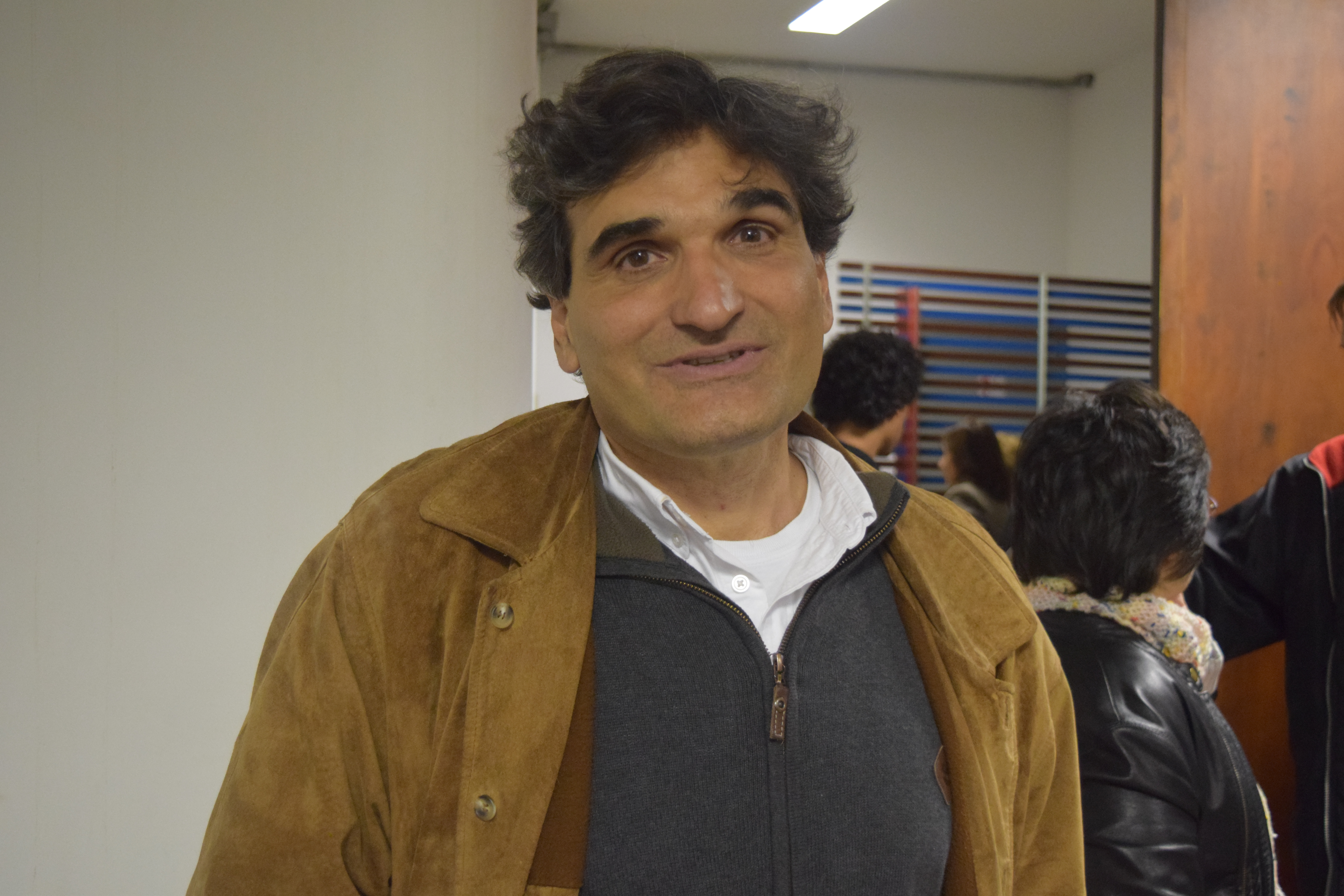 The roundtable "Challenges of Scientific Dissemination: in praise of Ernesto Hamburger" was an event organized by NeuroMat that discussed the role of scientific communication, exhibition and education in Brazil, realized on June, 9, at 6:00PM, at the Institute of Physics, at the University of São Paulo. As the title of the roundtable indicates, it was an event in praise of Ernesto Hamburger, a famous Brazilian physicist and popularizer of science. Read more here. Pictured: Carlos Império Hamburger, better known as Cao Hamburger, a Brazilian screenwriter and director of movies and TV. He is one of the creators of the Castelo Rá-Tim-Bum series of programs for children in the TV Cultura of São Paulo, along with Flávio de Souza, which gave origin to a successful movie with the same title.